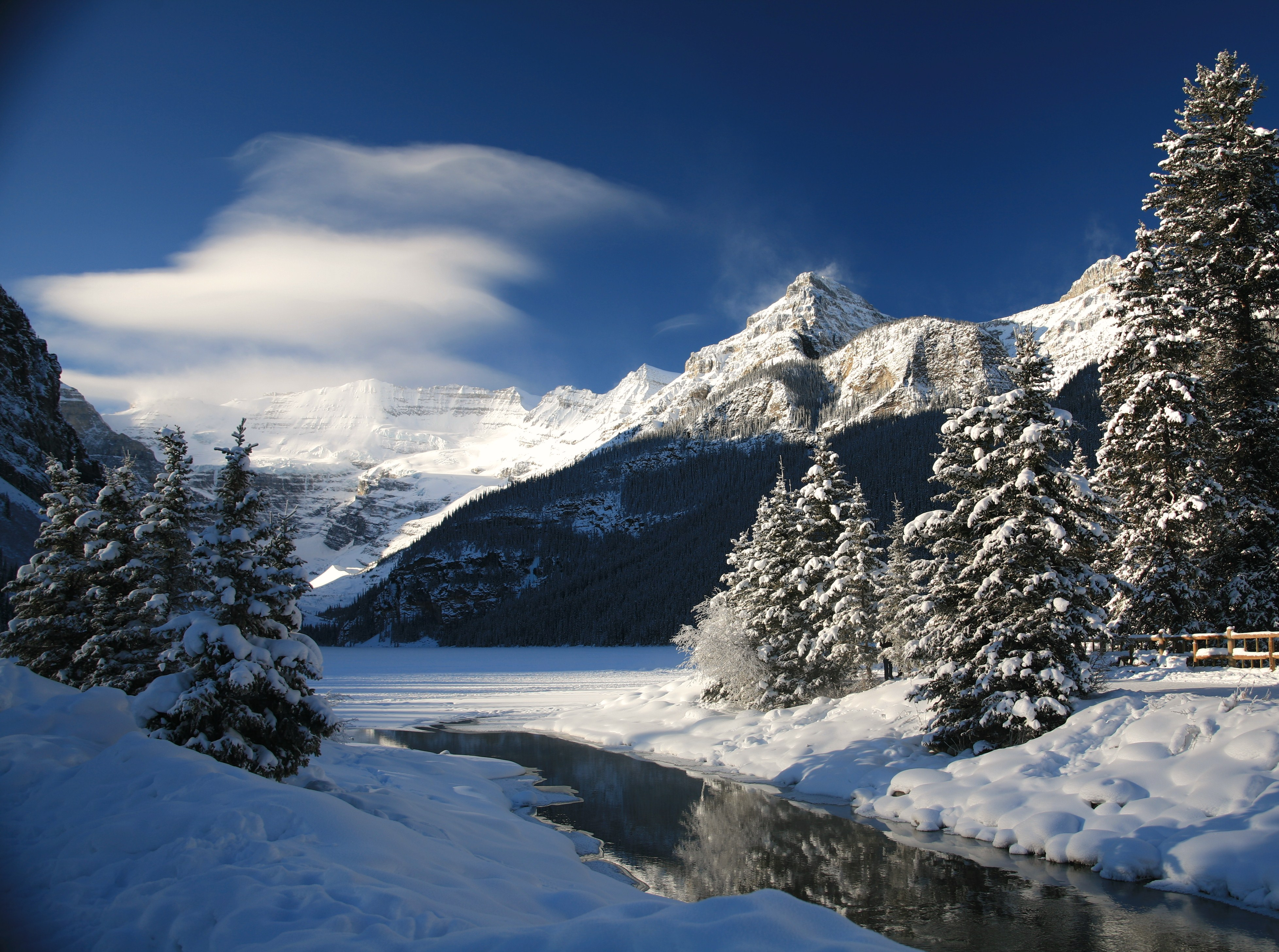 A winter cloud sweeps over the Victoria Glacier at Lake Louise, Alberta, Canada.